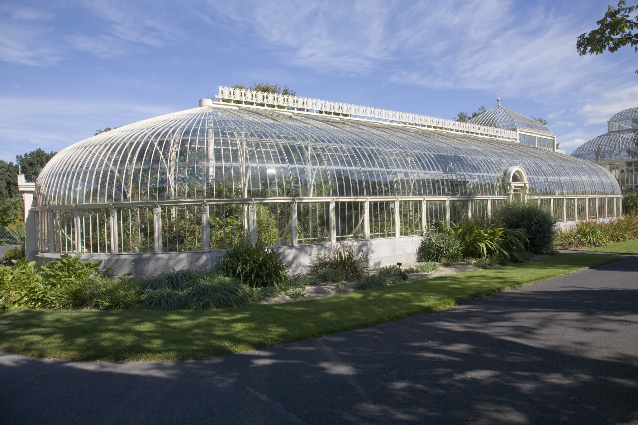 Greenhouses, Irish National Botanic Gardens, Glasnevin, Dublin, Ireland.